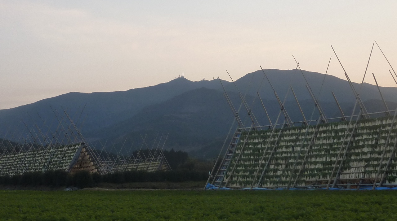 Mt.Wanitsukayama (Tano, Miyazaki City, Japan)